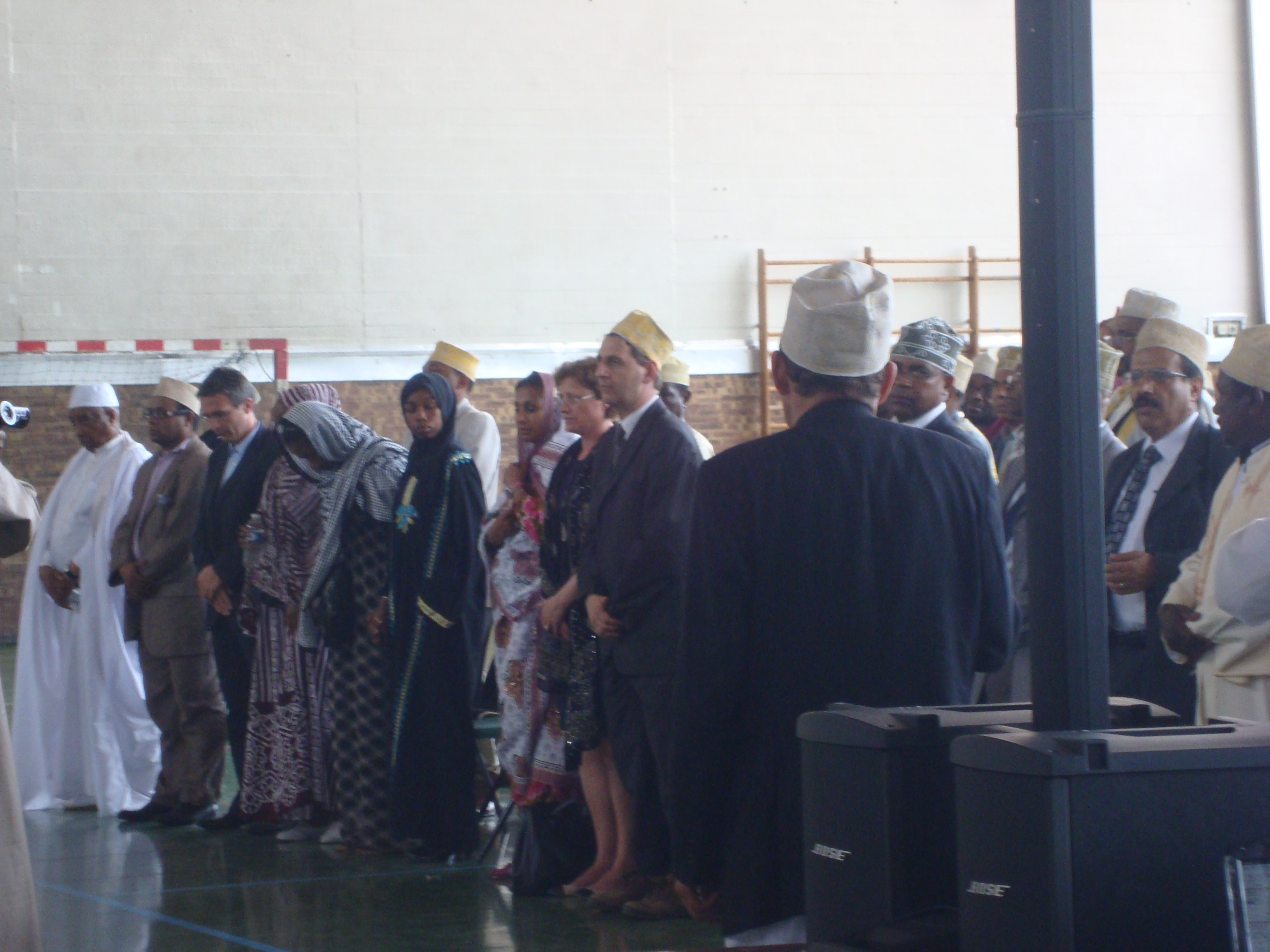 View of the room hosting a 27 June 2010 one year anniversary ceremony for the victims of the Yemenia Flight 626 crash, in the 18th arrondissement of Paris. In the centre in black is the sole survivor, Bahia Bakari. Third to the left, Stéphane Troussel, vice president of the General Council of Seine-Saint-Denis. In the back, Abdallah Mirghane, the ambassador of Comoros to France. To the right, Daniel Goldberg, deputy of Seine-Saint-Denis and Annick Lepetit, deputy of Paris.